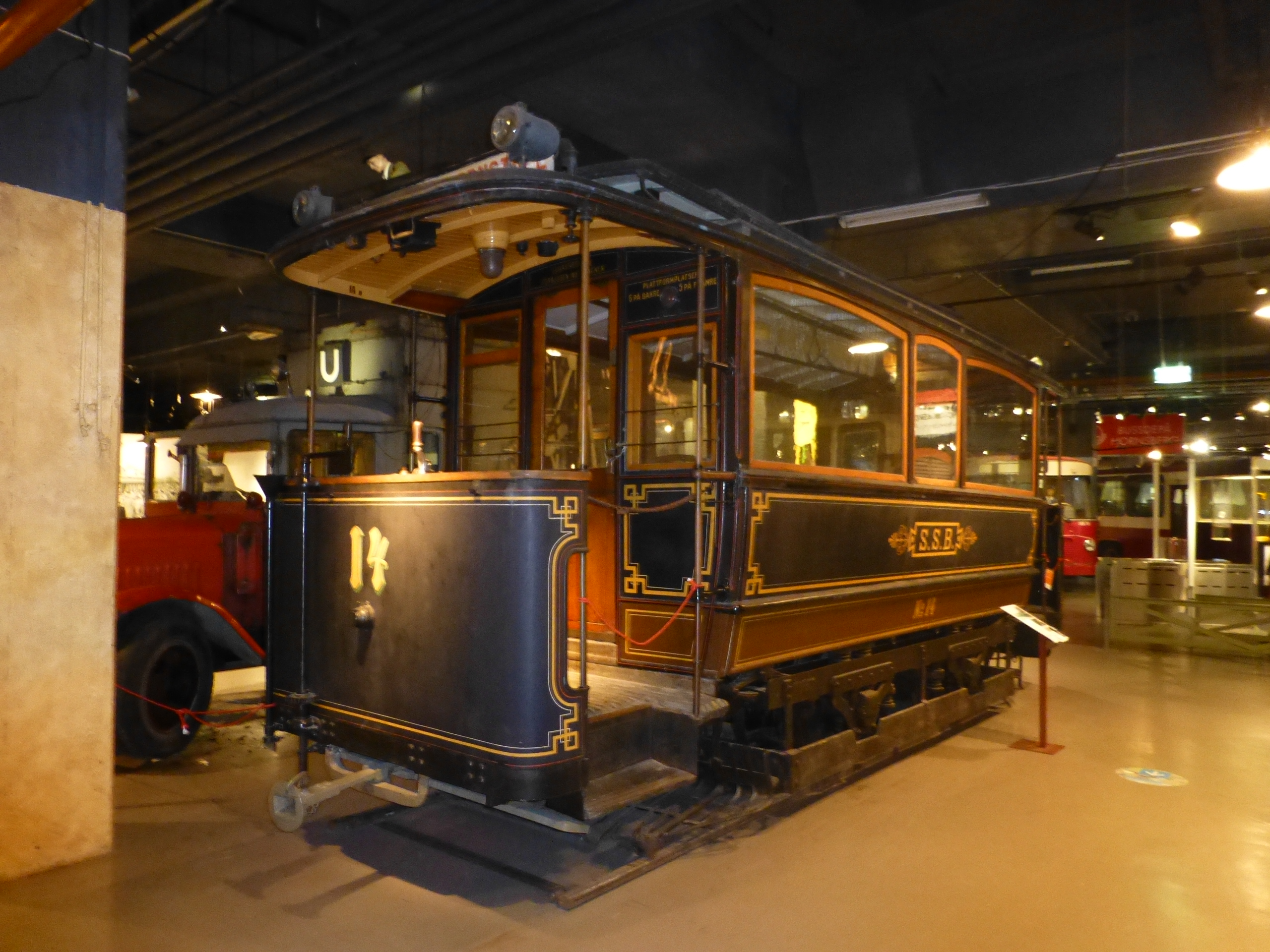 Tram SSB A1 14 from Stockholm from 1901 at Spårvägsmuseet in Stockholm.